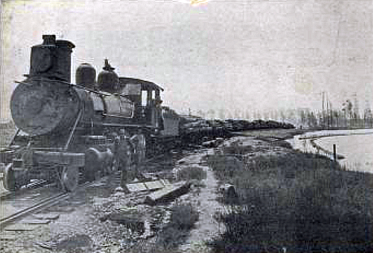 "Train of Logs Fink line [sic] Lumber Co. Wiggins, Miss. View of train." Log train of Finkbine Lumber Company in Wiggins, Mississippi